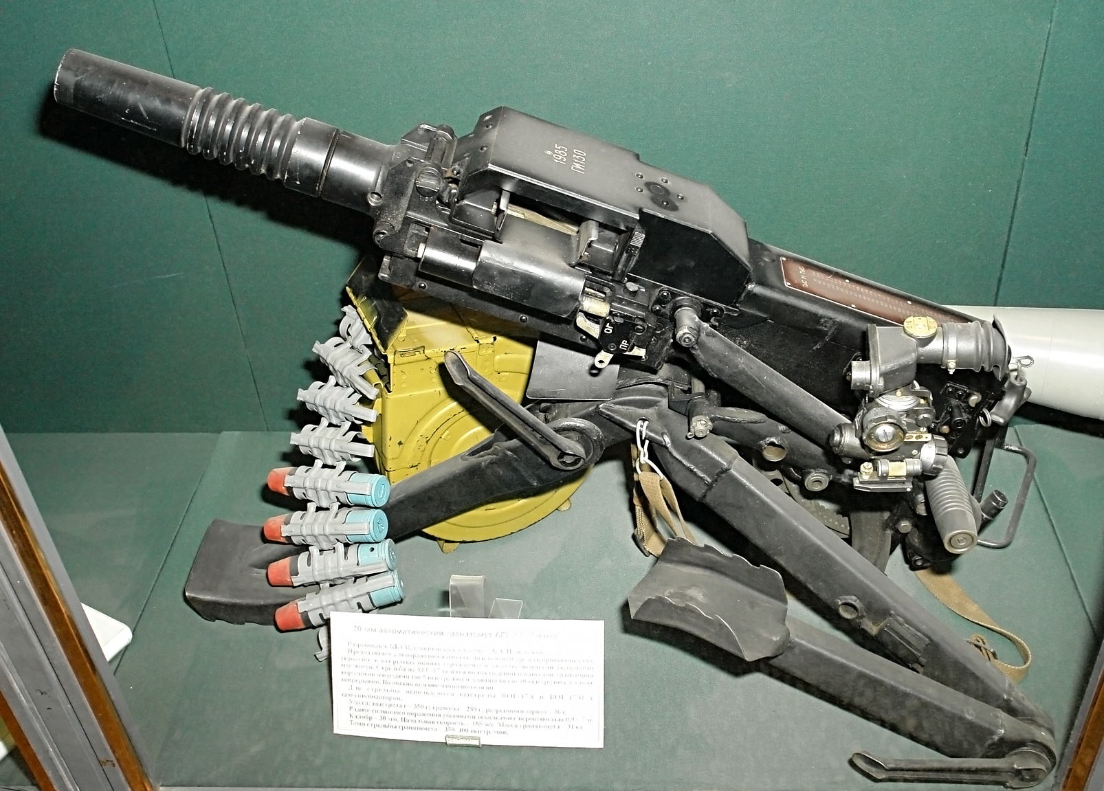 30mm caliber automatic grenade launcher AGS-17 Plamya in artillery in the Military-historical Museum of Artillery, Engineer and Signal Corps